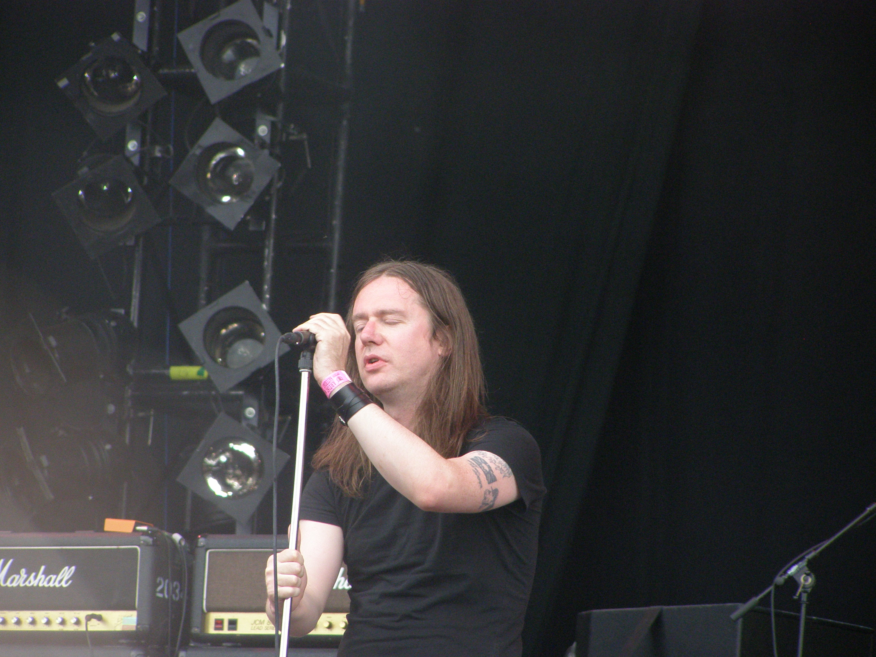 Lee Dorrian in Wacken